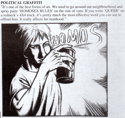 Detail of interview with Nirvana rendered as a comic strip, illustratted by Ralph Horsley, from issue 10 of Ablaze!, Leeds, UK, 1993.